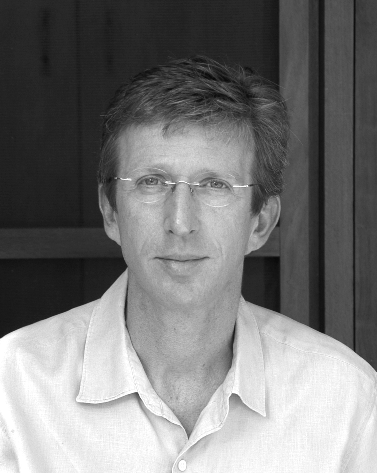 American architect, university Professor, and Dean David Heymann. Black and white photo.